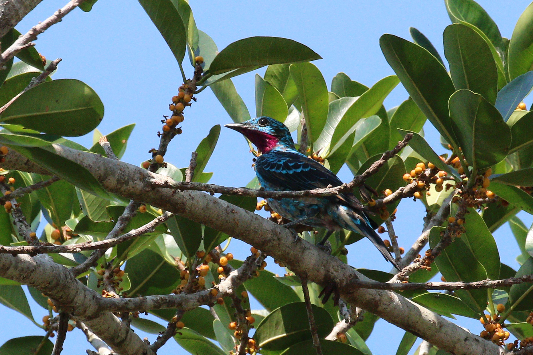 Spangled cotinga (Cotinga cayana), Rio São Manuel, Southern Amazon, Brazil